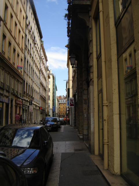 Rue des Capucins, near the Place des Capucins, in the 1st arrondissement of Lyon